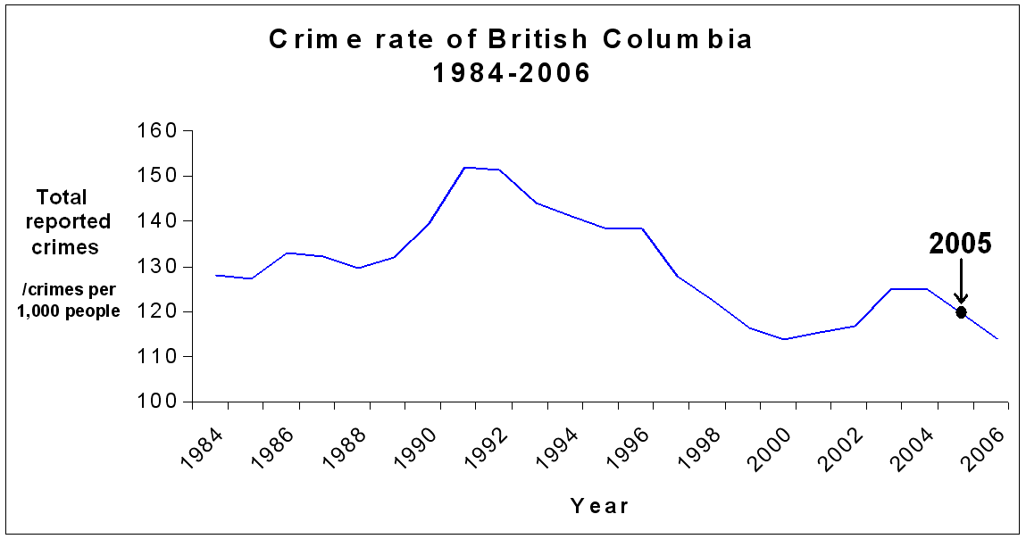 Graph of crime rate with 2005 emphasized